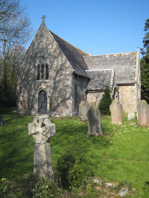 The church of St Moran at Lamorran The church was consecrated in 1261 but largely rebuilt in 1845 by the then Earl of Falmouth. Some C15th doors and a window remain. The church has a detached bell tower to the west, which is in a state of disrepair.